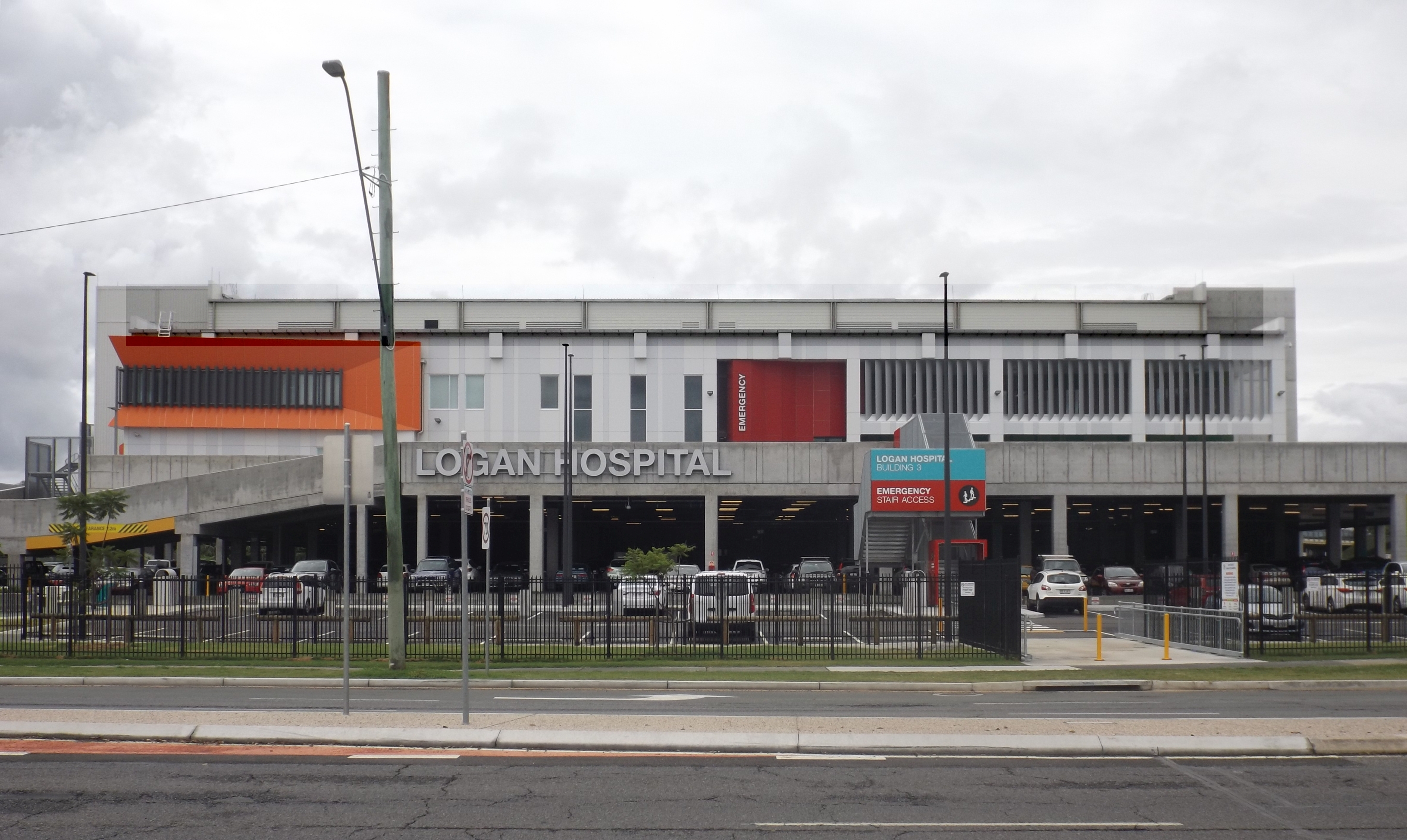 Photo of Logan Hospital from Loganlea Road in Meadowbrook, Logan City, Queensland, Australia.